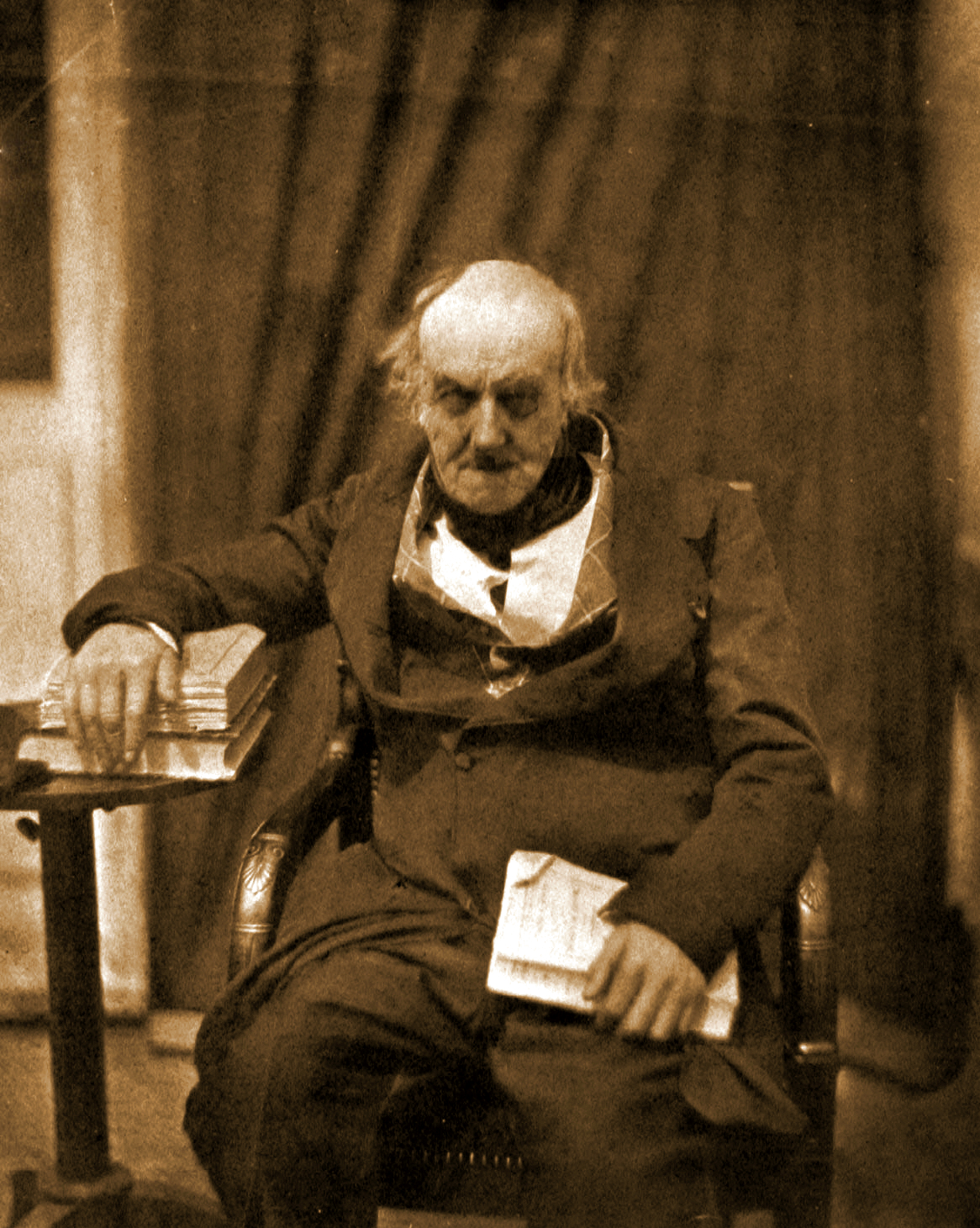 Portrait of Jean-Baptiste Biot (1774-1862)